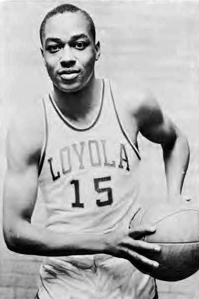 A portrait of Loyola-Chicago basketball player Jerry Harkness from the 1962–63 season